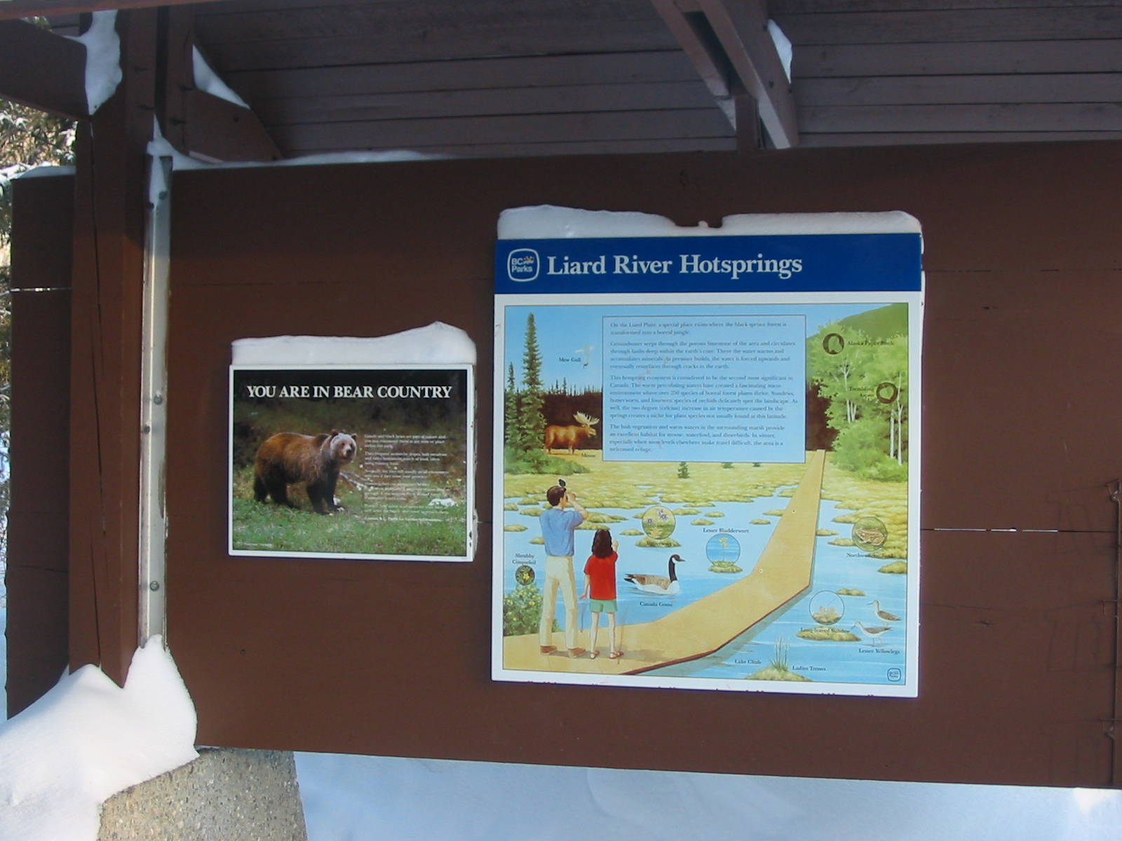 Info Poster at Liard River Hot Springs Provincial Park